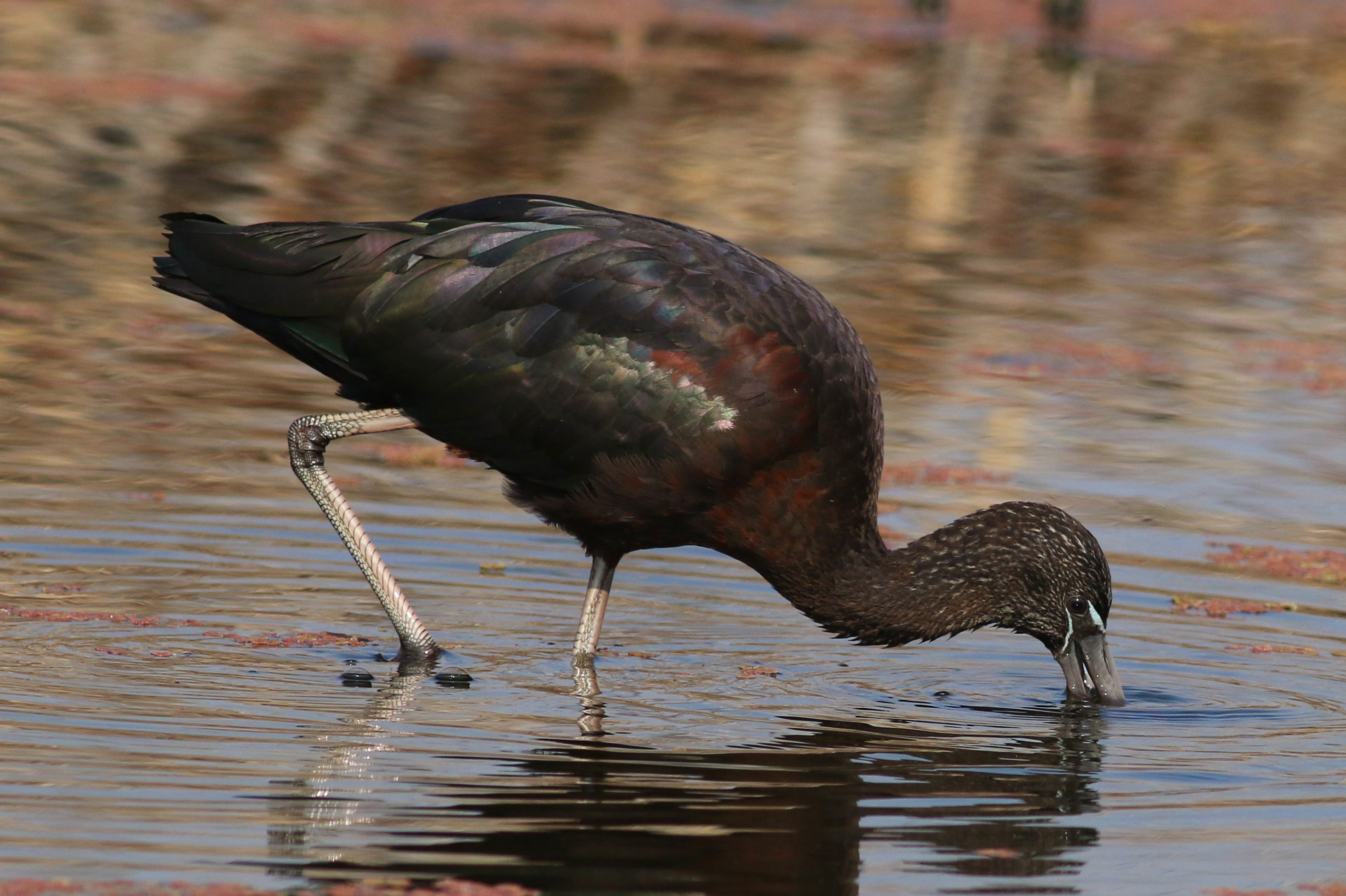 Glossy Ibis, Plegadis falcinellus at Marievale Nature Reserve, Gauteng, South Africa. Marievale is probably the best place to see this bird.